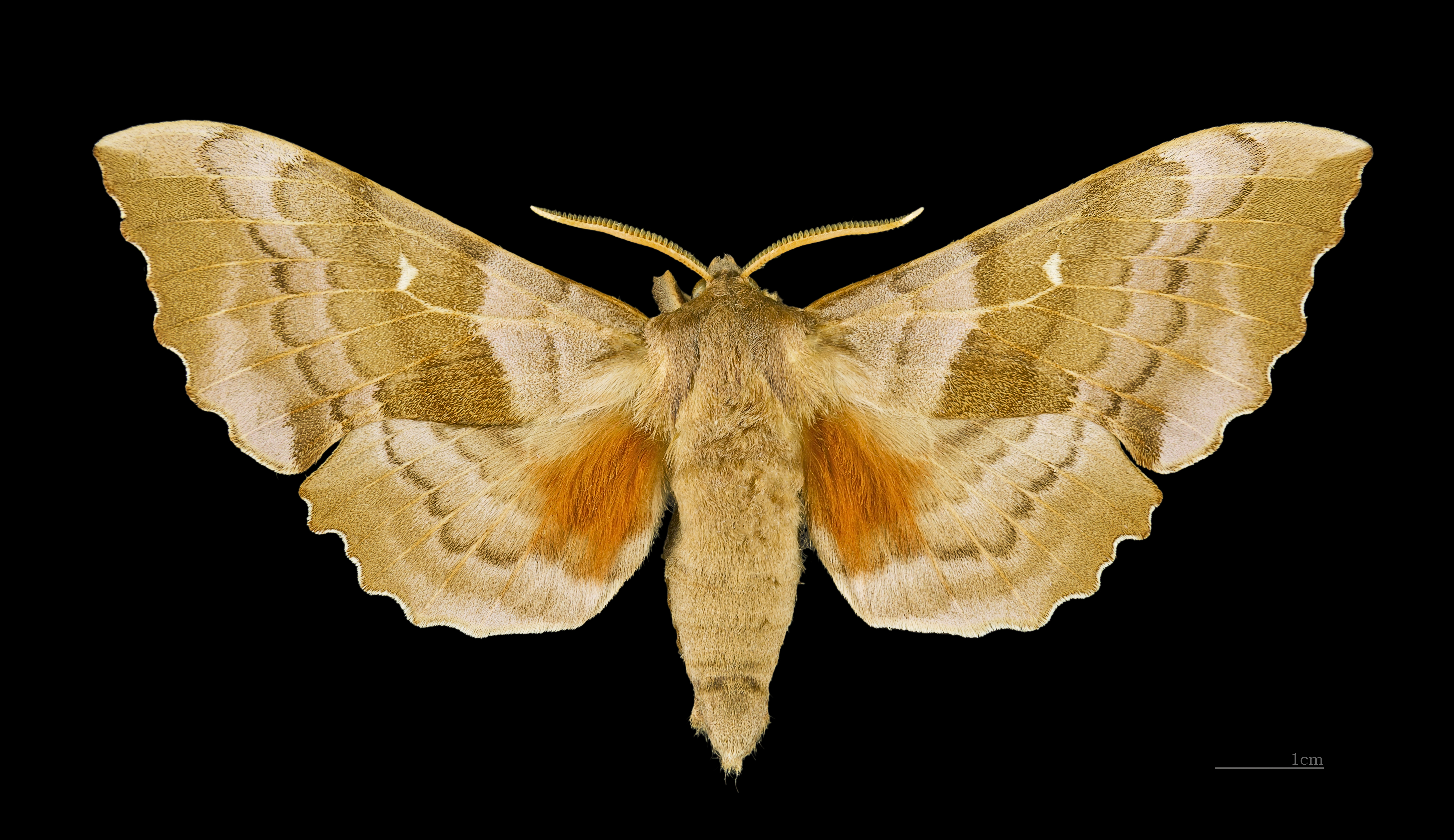 Poplar Hawk-moth - Dorsal side